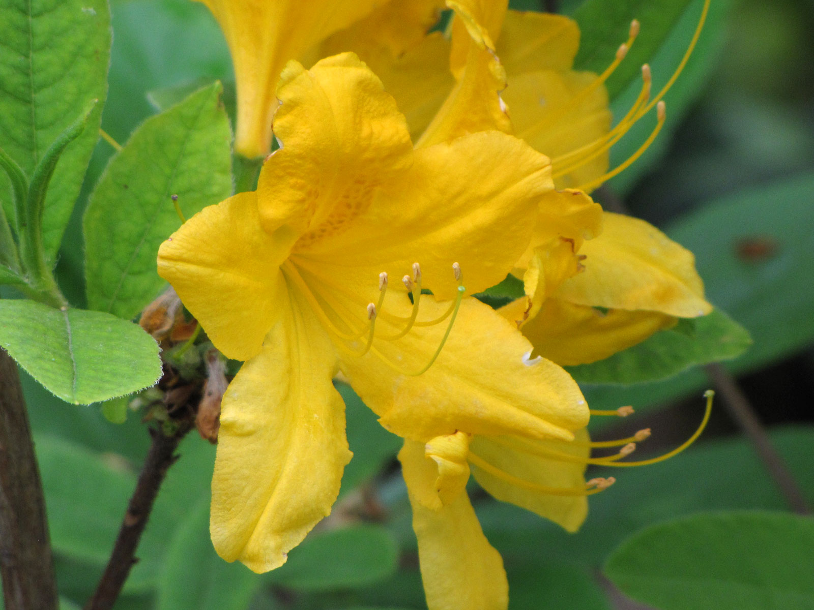 Rhododendron molle, cultivated. United States National Arboretum, Washington, DC, USA. 24 April 2010.